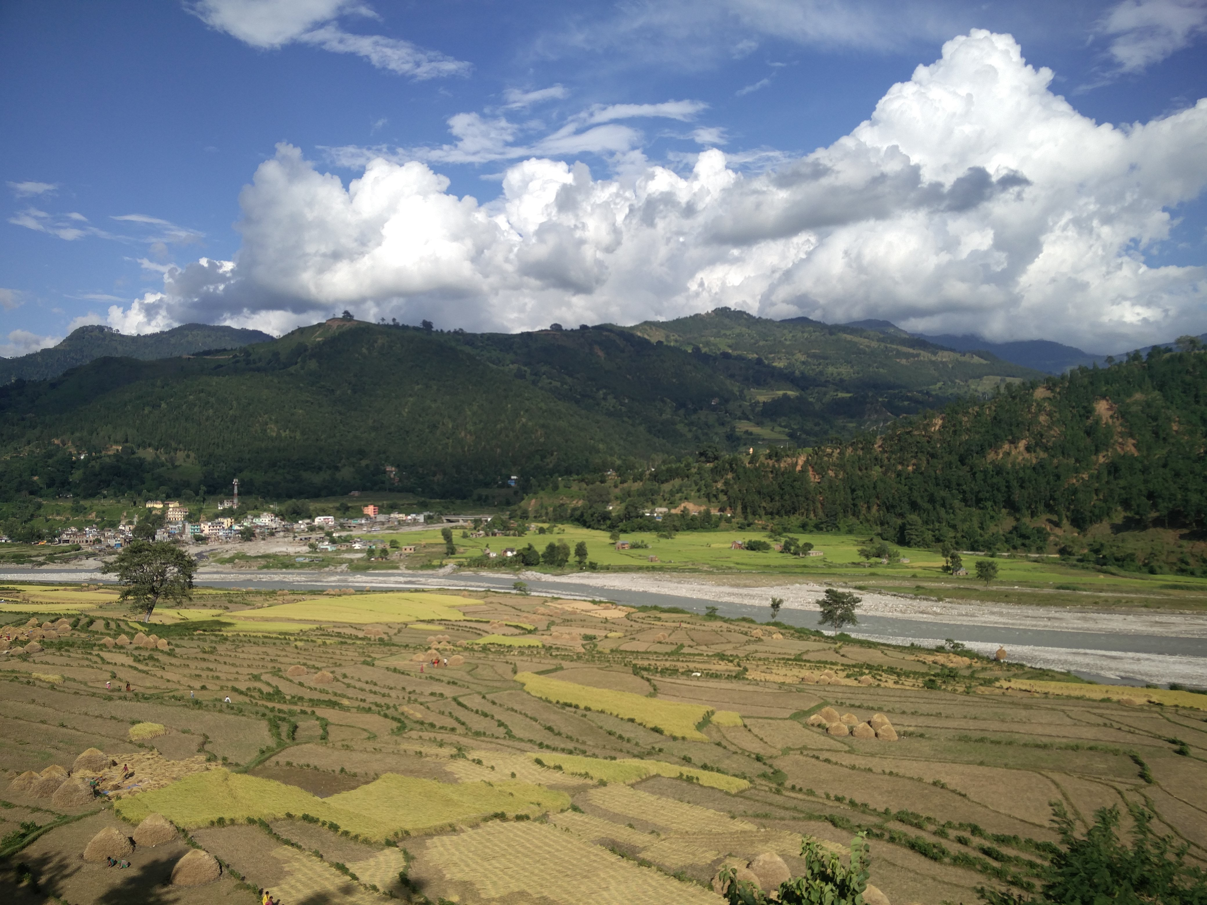 A view of Sanfebagar